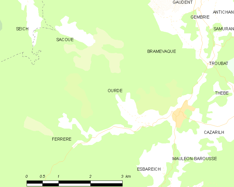 Map of French municipality